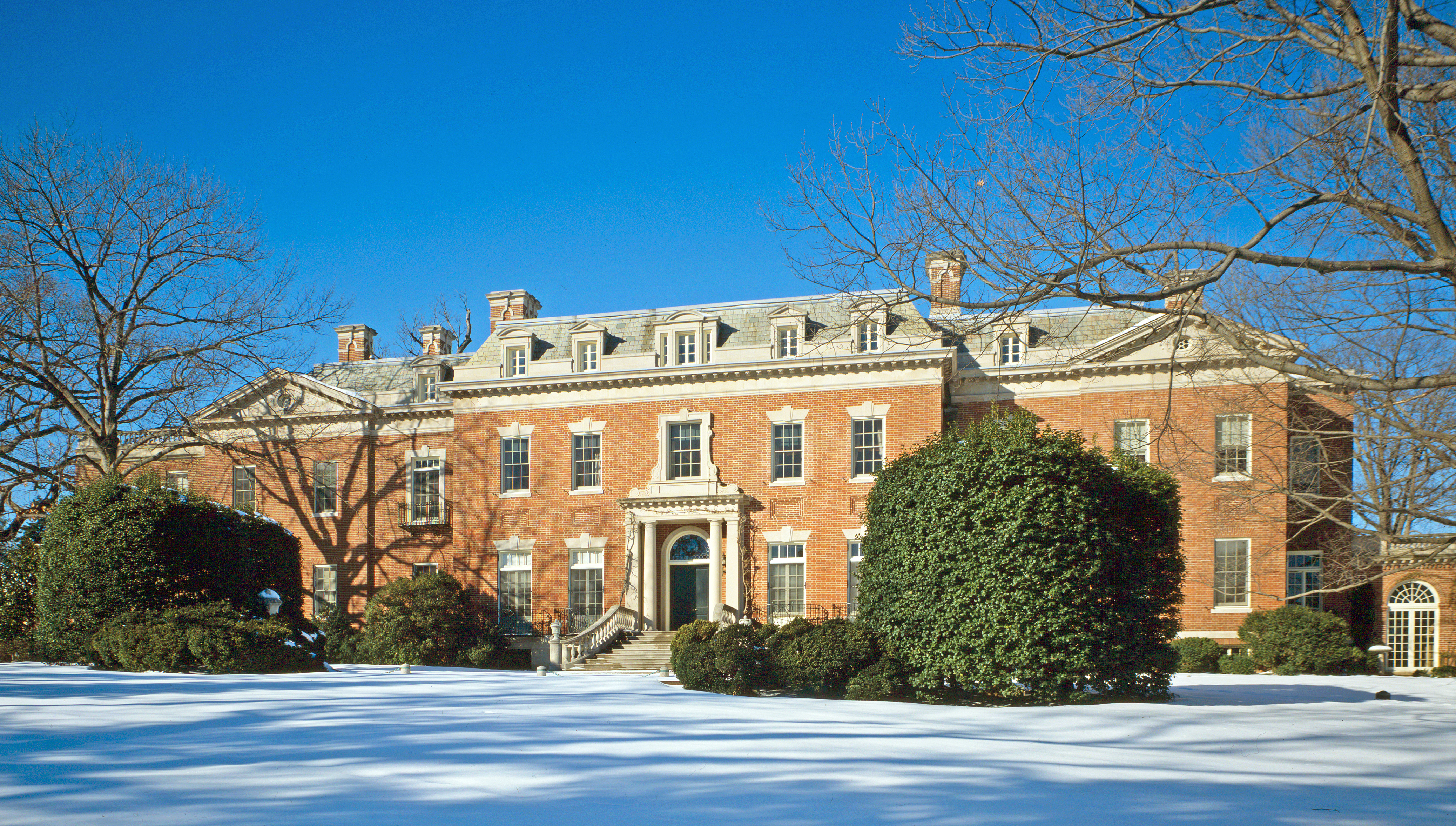 Photograph of Dumbarton Oaks mansion, 3101 R Street, Northwest, Georgetown, Washington, D.C., USA.